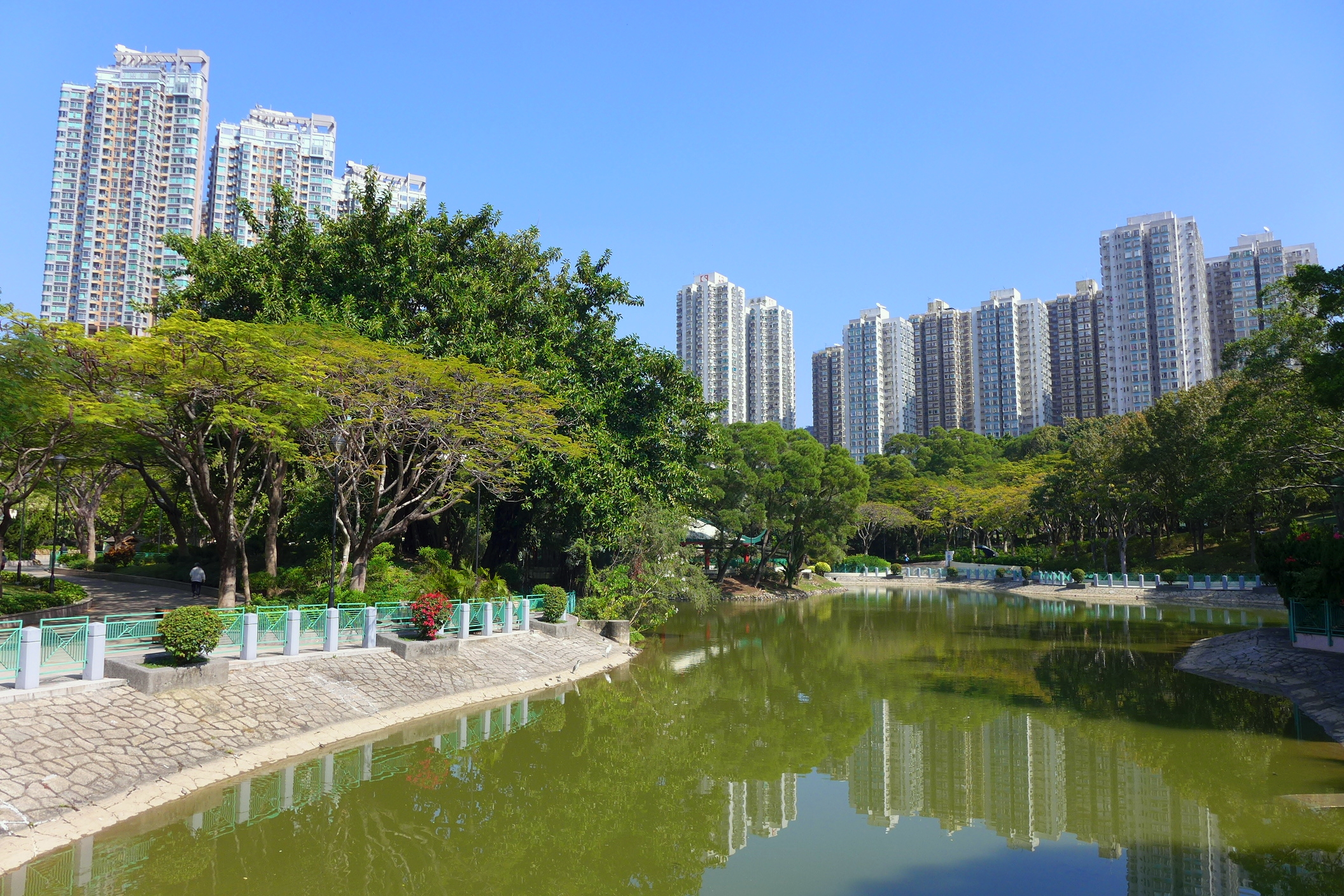 Tuen Mun Park Artificial Lake